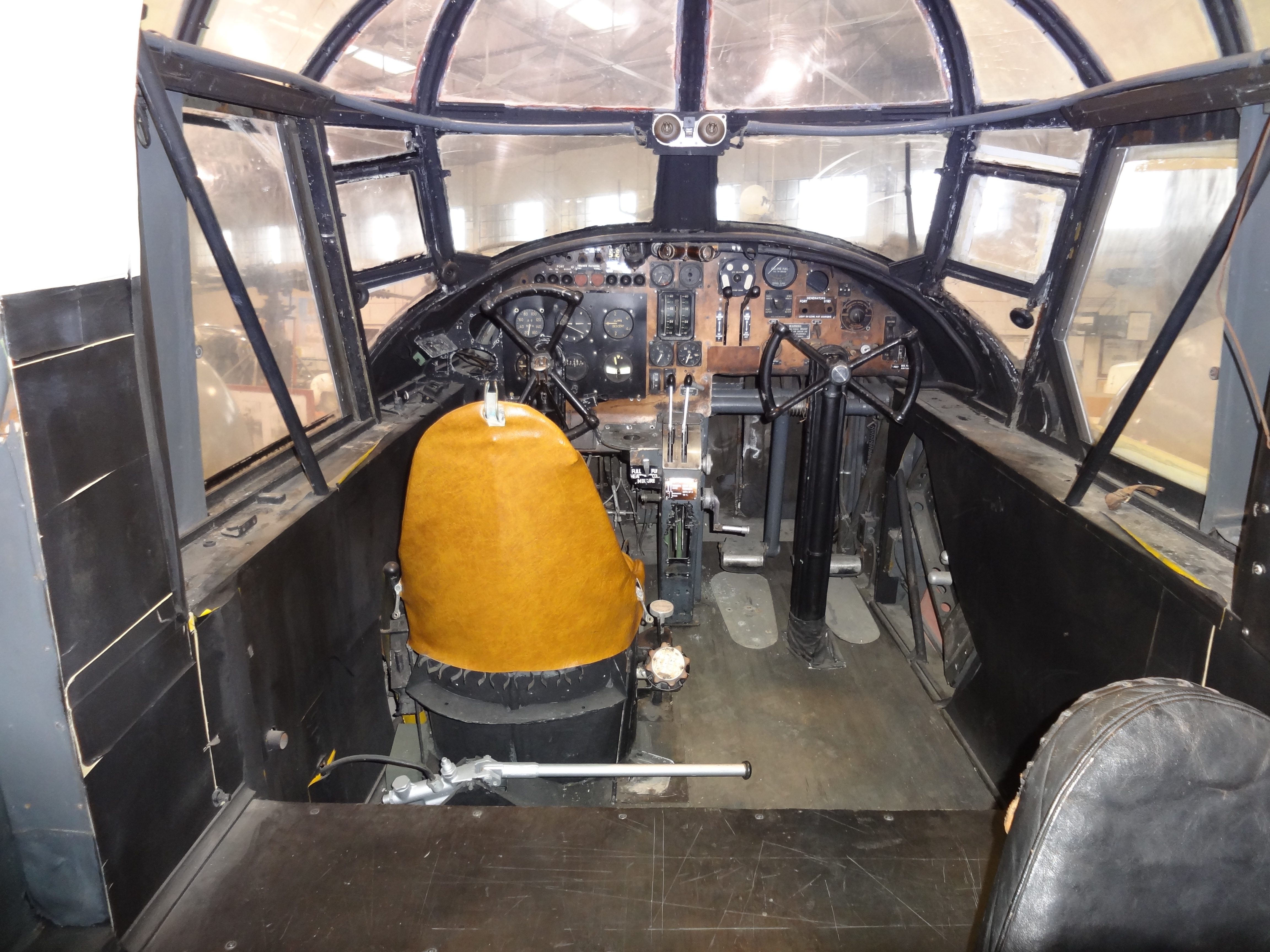 Inside the AVRO XIX, the first Air Corps aircraft with a monoplane design and a retractable undercarriage. Sistership to the AVRO Anson serving from 1930s - 1970s